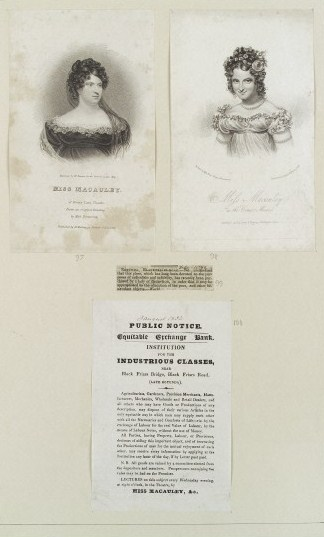 Ephemera concerning uses of the Blackfriars Rotunda, for an "Equitable Exchange Bank", promoted by Miss Macauley.